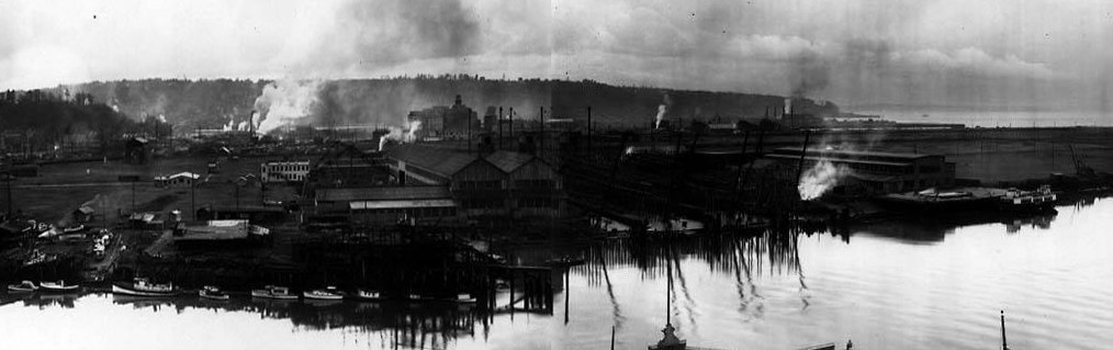 J. F. Duthie & Company, Harbor Island, Seattle, Washington, U.S., 1917. Facing onto the East Waterway of the Duwamish; Fisher Flour Mill in background.